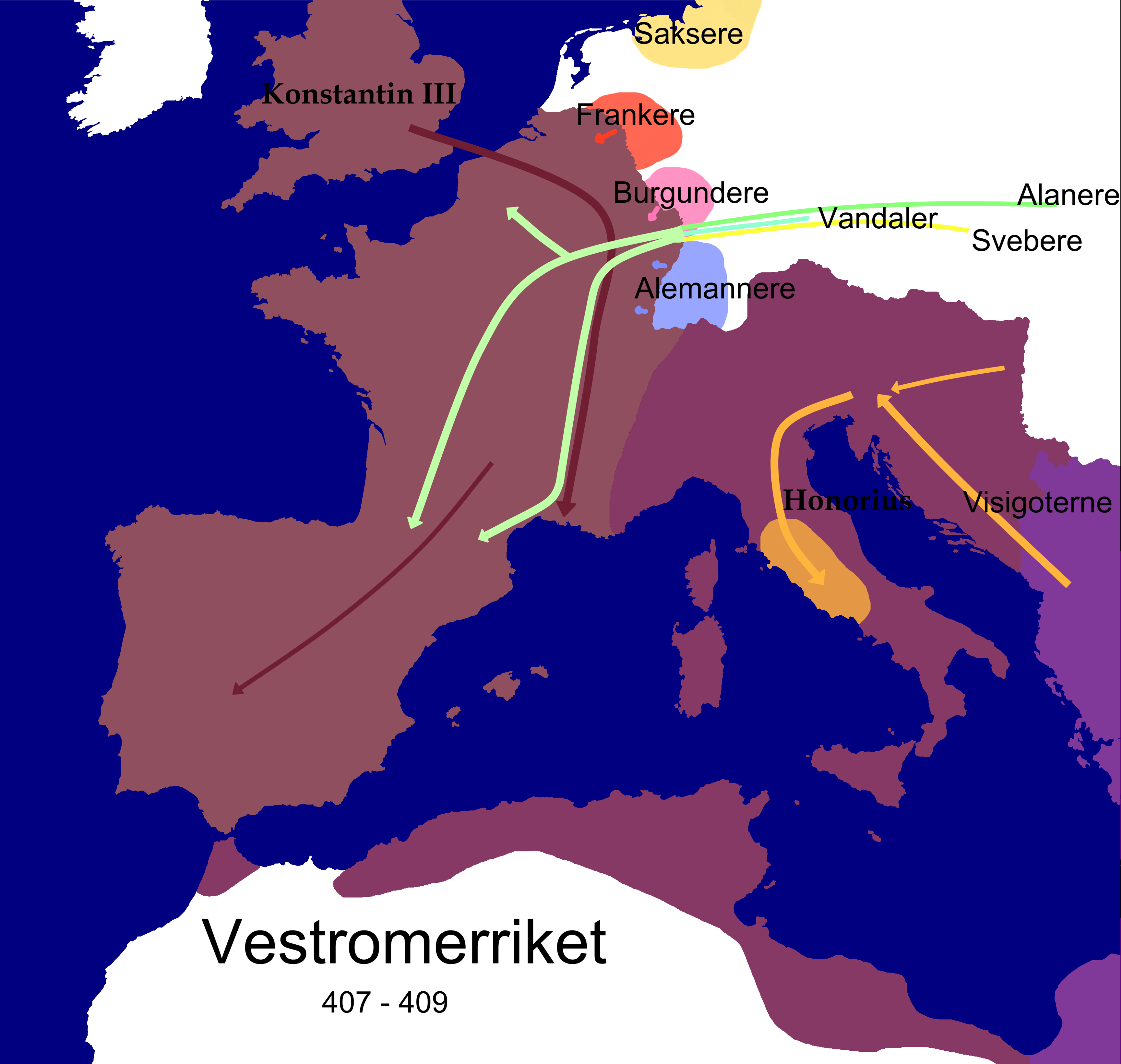 Western Roman Empire from 407 to c. November 409. Leave me a note if you're interested in an unlabeled version